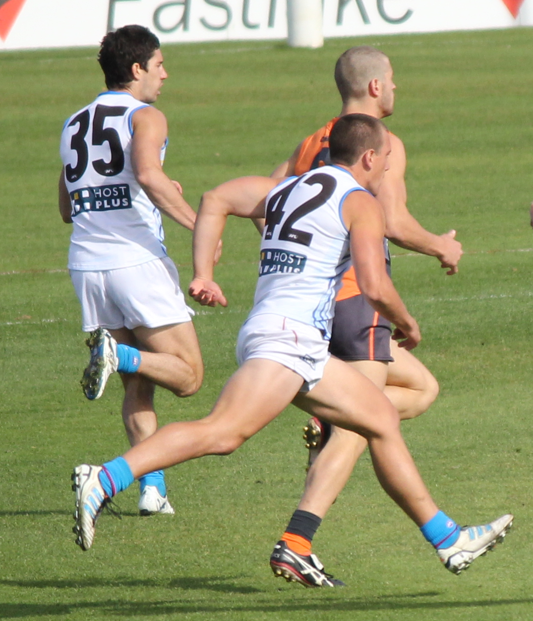 2012 Round 7. GWS Giants vs Gold Coast Suns. Manuka Oval.